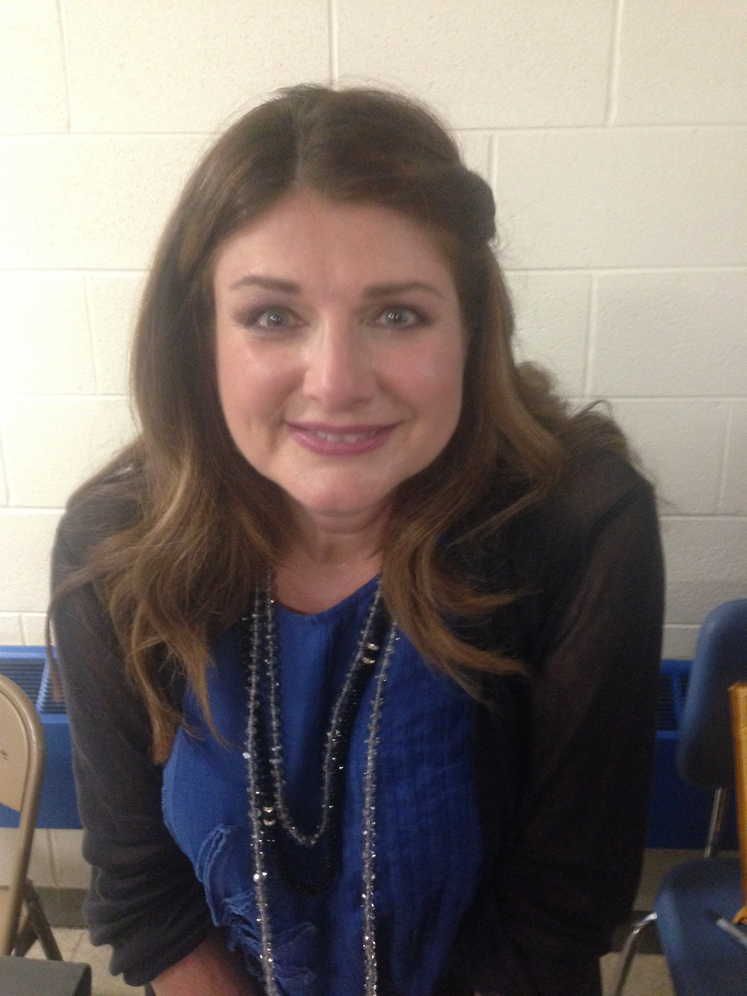 A picture of country singer Sylvia in summer 2016